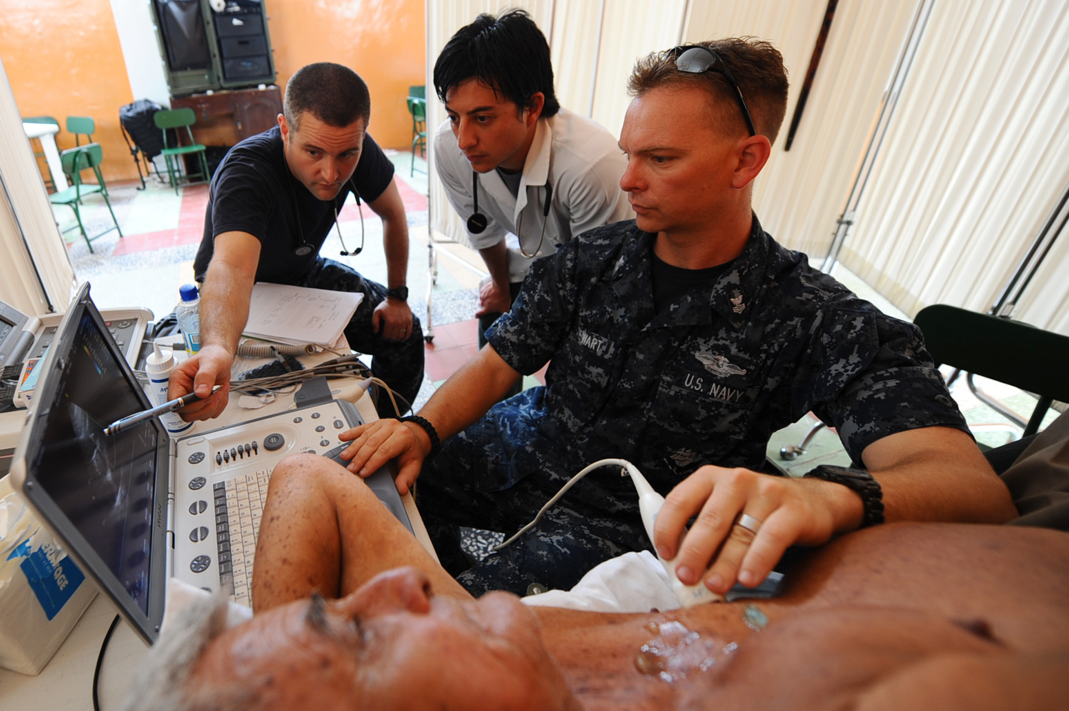 ROCAFUERTE, Ecuador (May 16, 2011) Lt. Cmdr. Brad Serwer, left, a cardiologist from Olney, Md., Felipe Torres, center, a medical student at Universdad Tecnologica Equinoccial and Hospital Corpsman 1st Class Ben Stewart, from Atlanta, Texas, examine a patient's heart with an echocardiogram during Continuing Promise 2011. Continuing Promise is a five-month humanitarian assistance mission to the Caribbean, Central and South America. (U.S. Air Force photo by Senior Airman Kasey Close/Released)